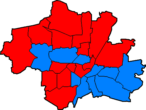 Favourite team in the Derby of Munich Blue : TSV 1860 Red : FC Bayern